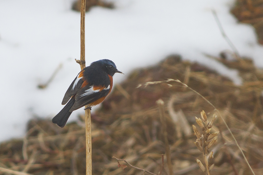 The species White-throated Redstart had been photographed during the birding tour of GoingWild in Pangolakha Wildlife Sanctuary, East Sikkim, India on 11.02.2016.